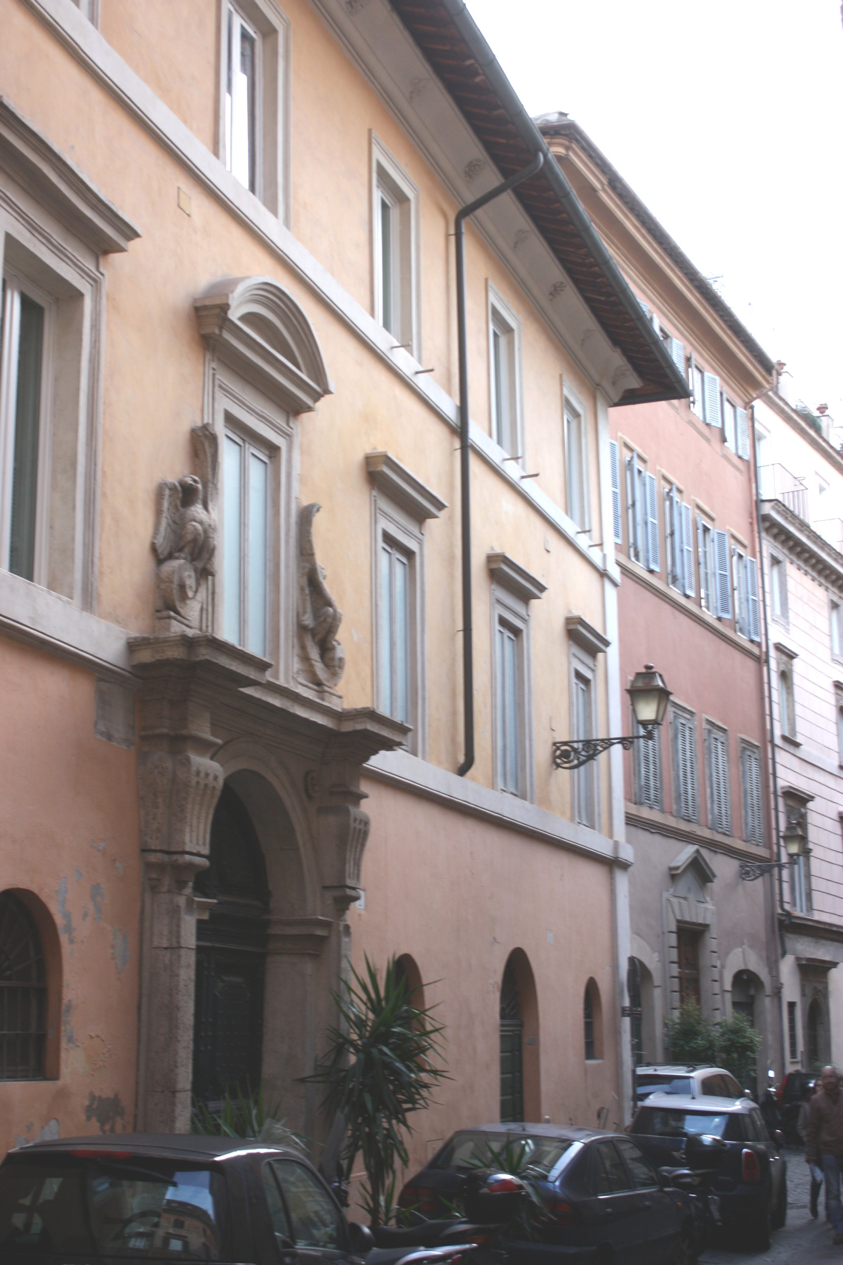 Rome, house 2 Via di Monte Giordano